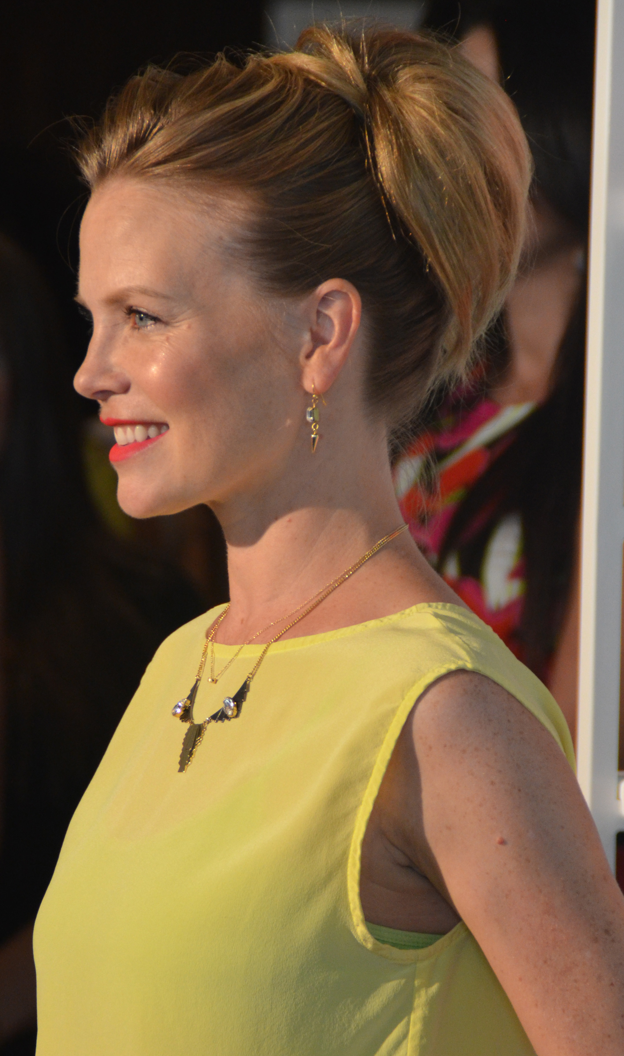 Sarah Jane Morris 2014 by Mingle Media TV and Red Carpet